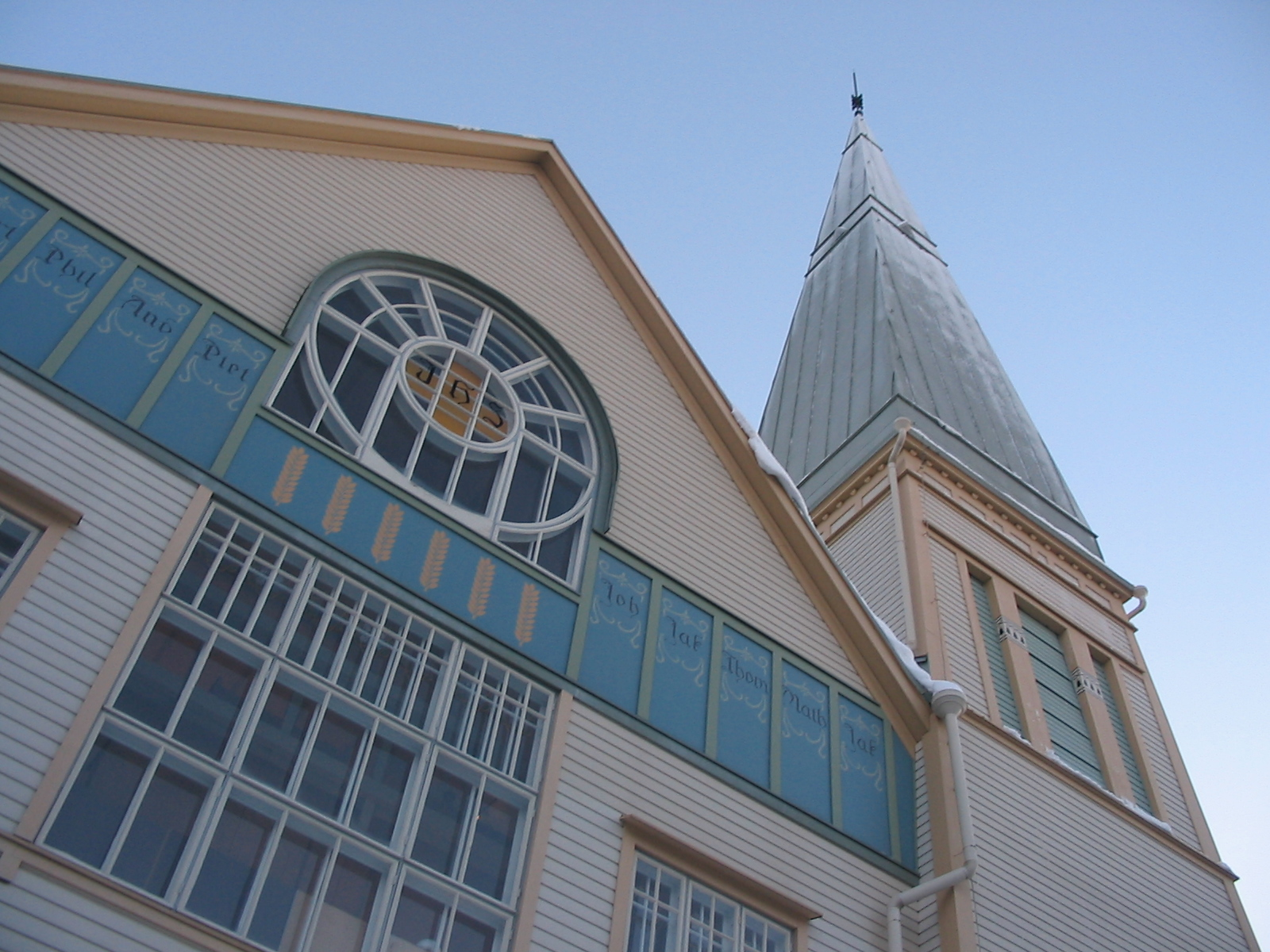 The Church of Oulujoki Parish, Oulu, Finland, was designed by Viktor J. Sucksdorff and built in 1908.